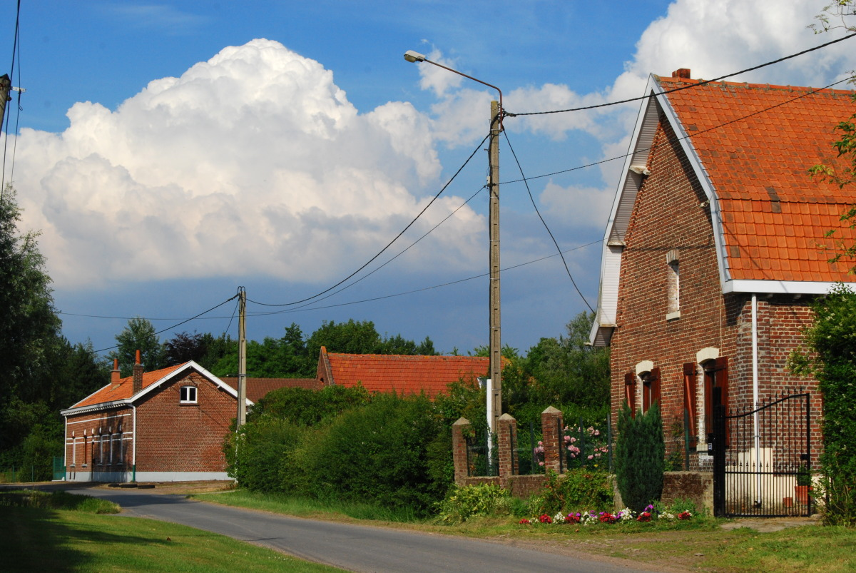 Martincamp street